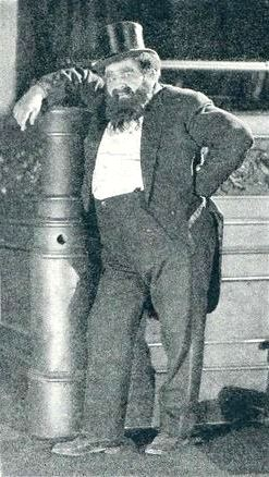 American actor Kalla Pasha on page 62 of the May 1922 Film Fun.